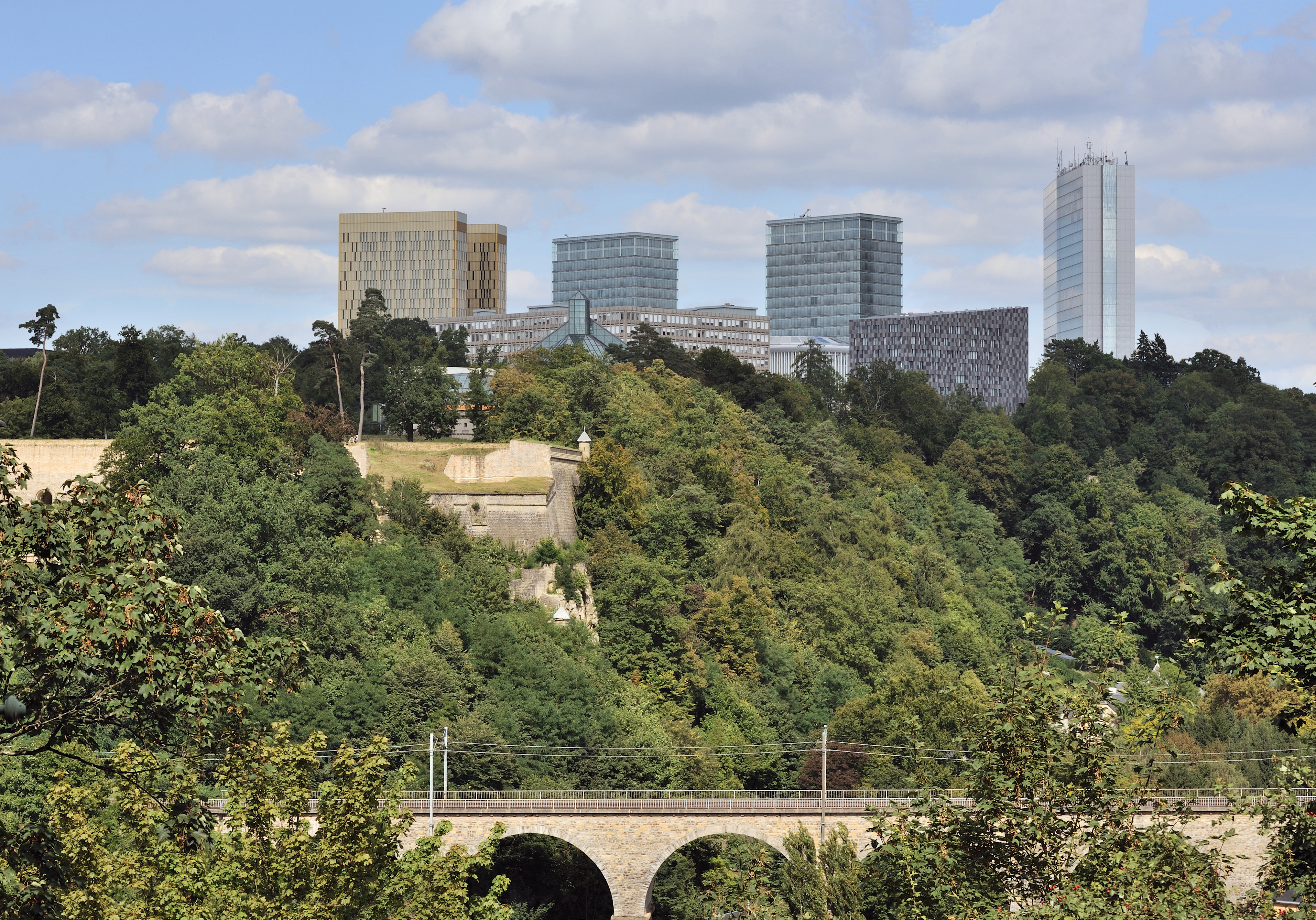 Luxembourg City: Plateau de Kirchberg as seen from montée du Pfaffenthal.